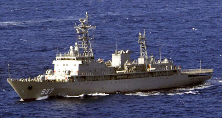 The Algerian training ship La Soummam (937). This is a cropped version of the original File:La Soummam, Gelibolu, Nashville, and Spetsai in Mediterranean (2008).jpg. Original is a work of the United States Government.